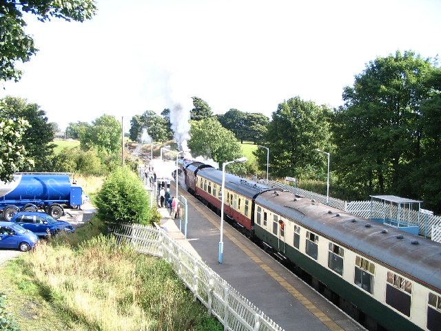 Long Preston railway station